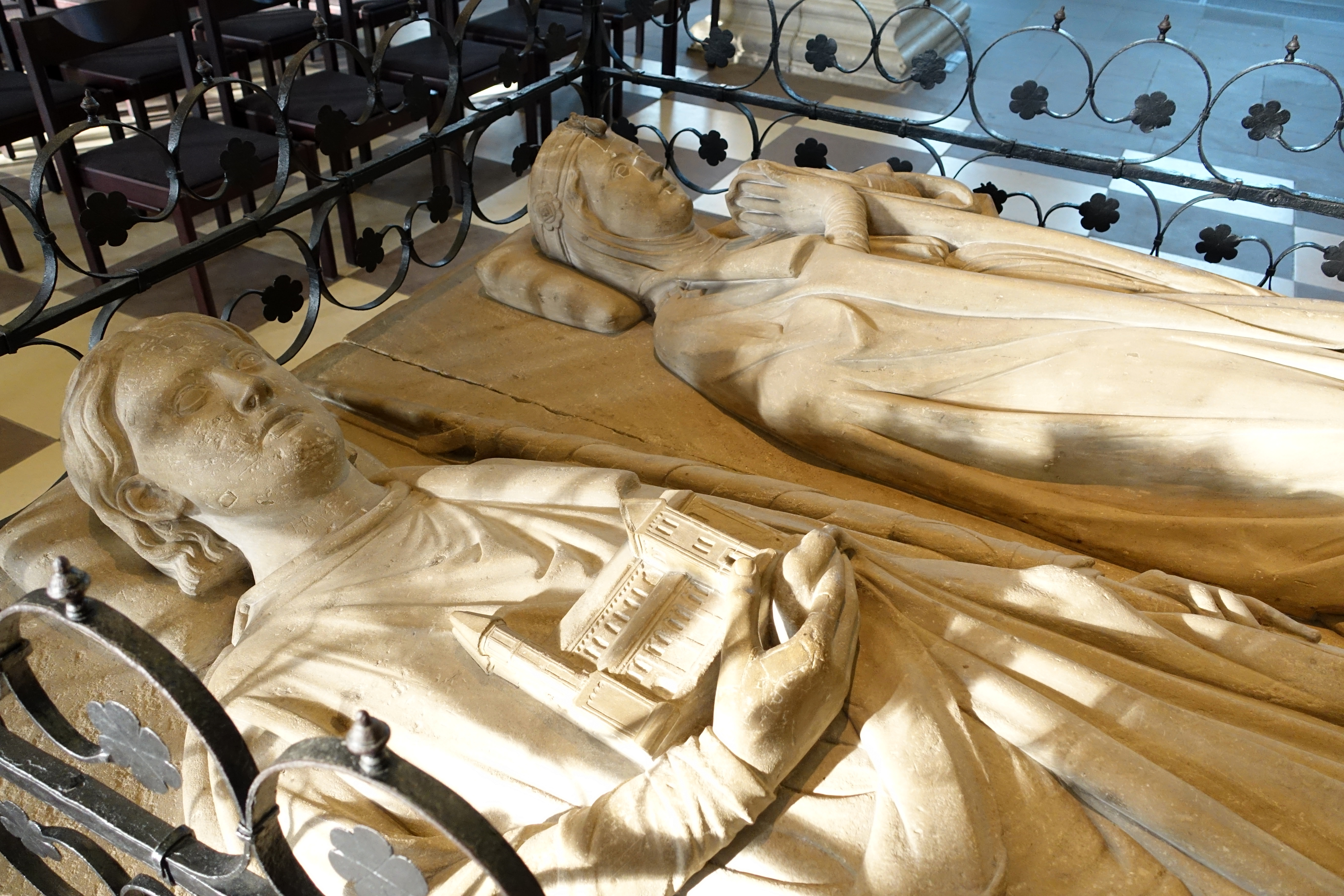 Tomb of Henry the Lion and Matilda of England - Brunswick Cathedral - Braunschweig, Germany.